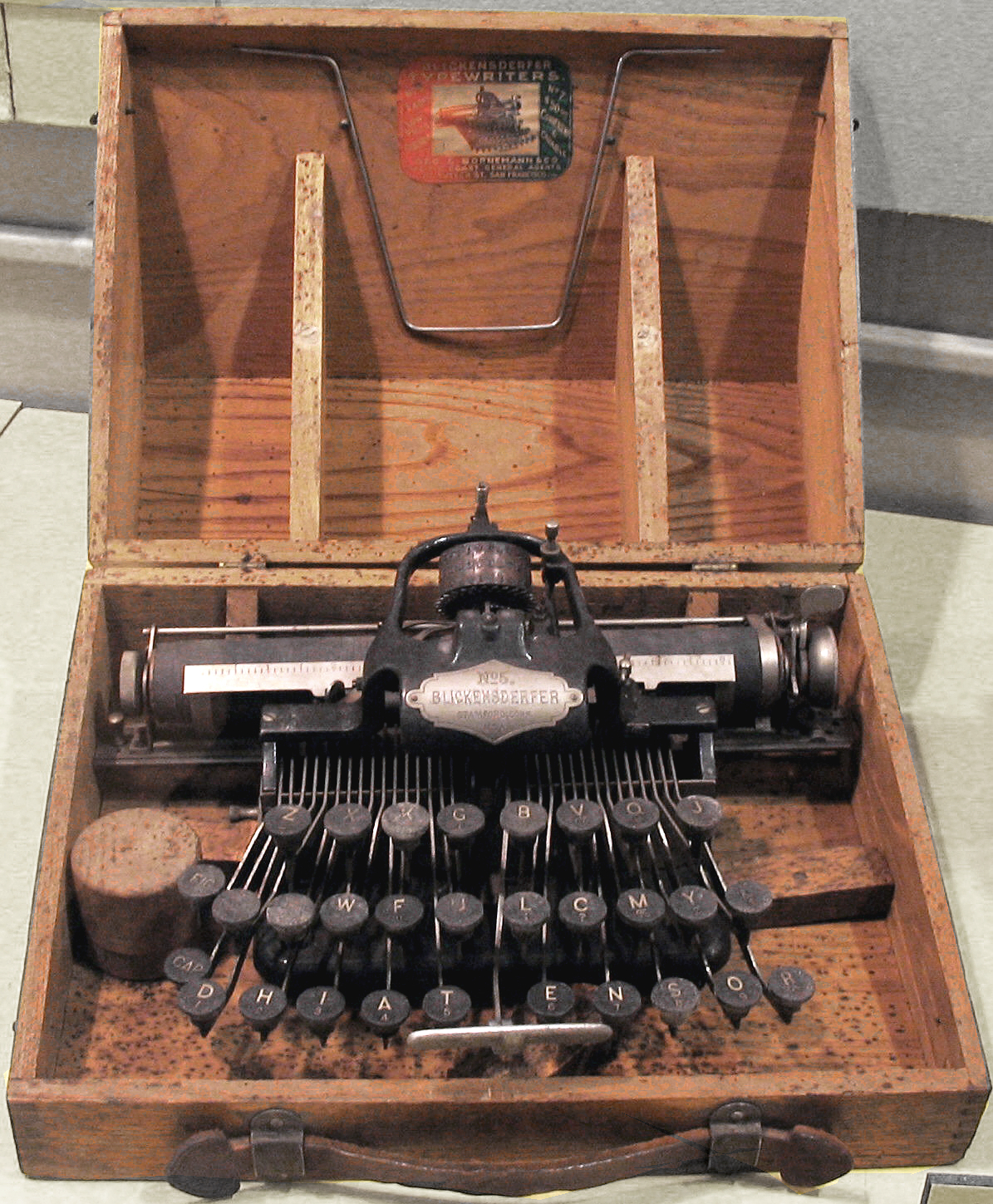 Antique Blickensderfer typewriter invented by George C. Blickensderfer (1850-1917) in 1891 and manufactured by the Blickensderfer Typewriter Co., Stamford, Connecticut, USA. This model is the Blickensderfer 5, the first commercial model, manufactured beginning 1893-5 until after 1906. The typefaces were on a cylindrical typewheel, seen at top, which could be changed to type different fonts. One of the first truly portable typewriters, it had a DHIATENSOR type keyboard instead of the more common QWERTY. For more information, see Blickensderfer 5, The Virtual Typewriter Museum. Alteration: brightened source image so details of machine can be seen.